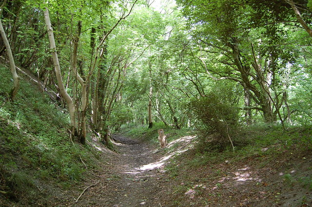 Bridleway going NW from the Dorsetshire Gap